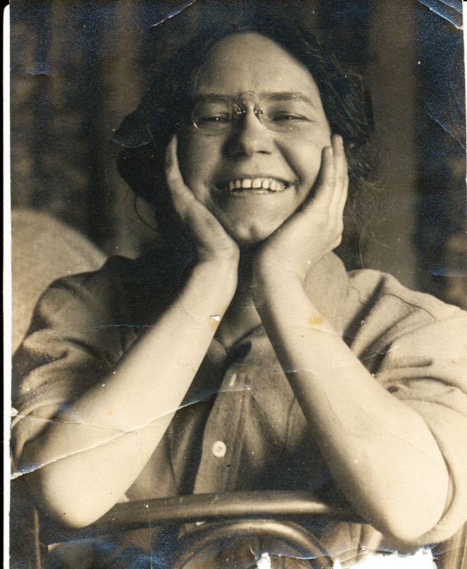 Snapshot of Lou Rogers taken around 1910.